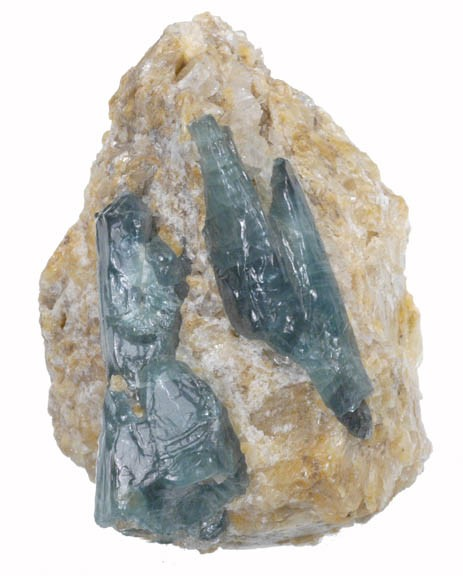 Apatite-(CaF), Feldspar Locality: Slyudyanka (Sludyanka), Lake Baikal area, Irkutskaya Oblast', Prebaikalia (Pribaikal'e), Eastern-Siberian Region, Russia (Locality at ) These crystals are some of the better quality blue Apatites that Ive seen from this old Russian locality. They often remind me of the green Apatites embedded in the same pink Feldspar from near Bancroft, Canada. These crystals measure up to 4.1 cm and are rather gemmy for this locality and relatively well formed. 6.8 x 5.2 x 4.1cm